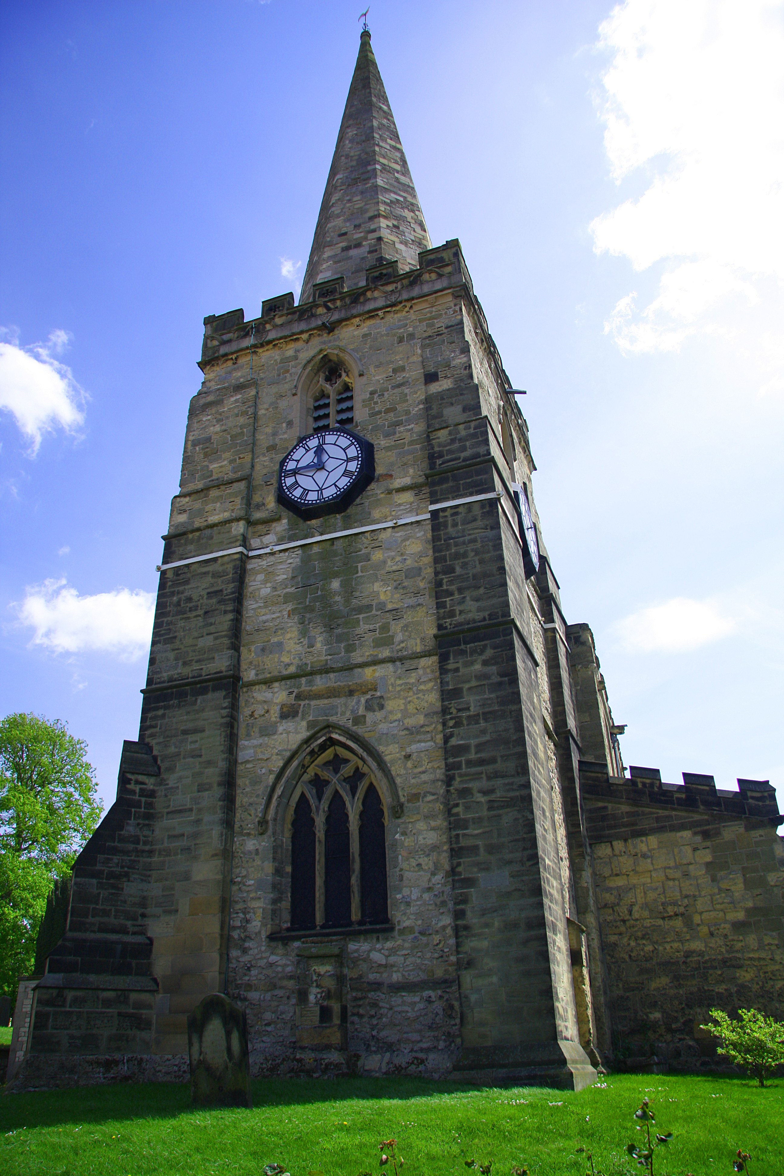 Pickering Church